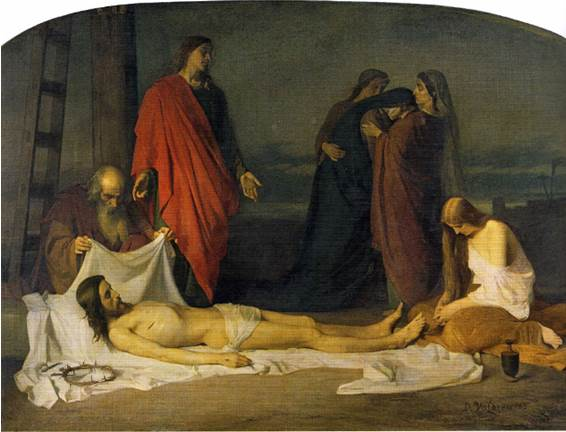 Descent from the Cross